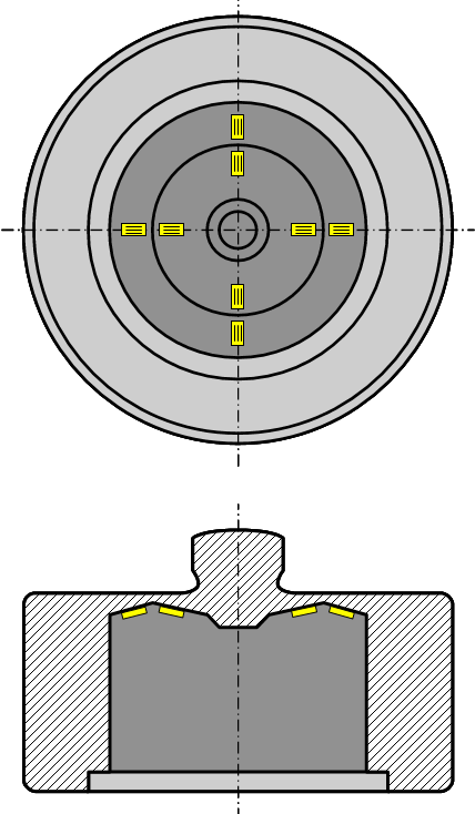 load cell or force transducer spring element, type membran